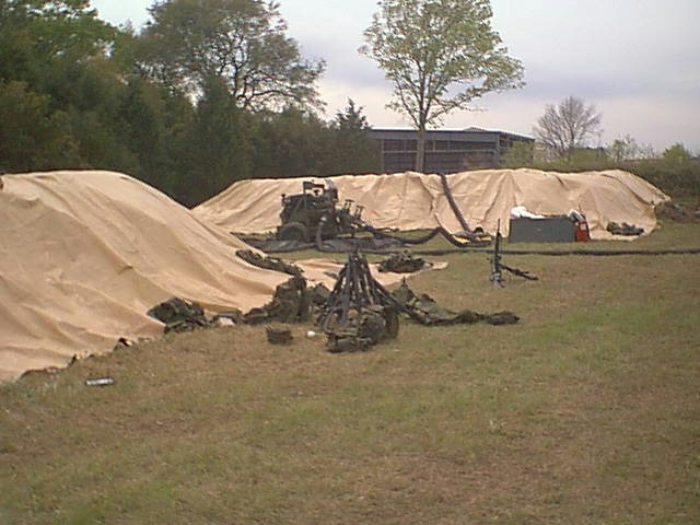 Tactical Airfield Fuel Dispensing System berm liners and pumps.